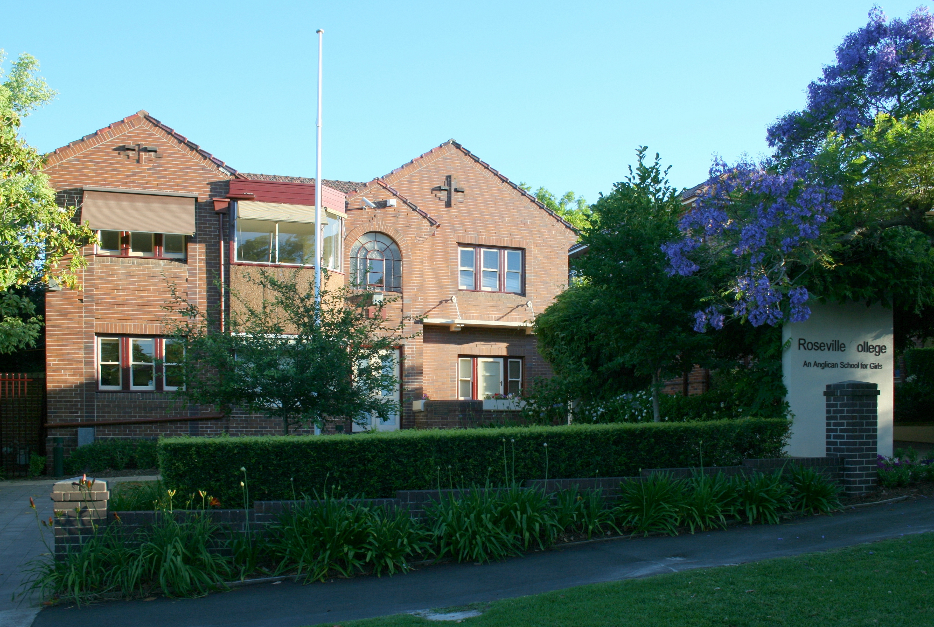 Roseville College front entrance. Located in Roseville, New South Wales (NSW), Australia.